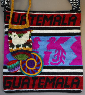 Photo of tapestry crochet pieces made for tourists in Guatemala.